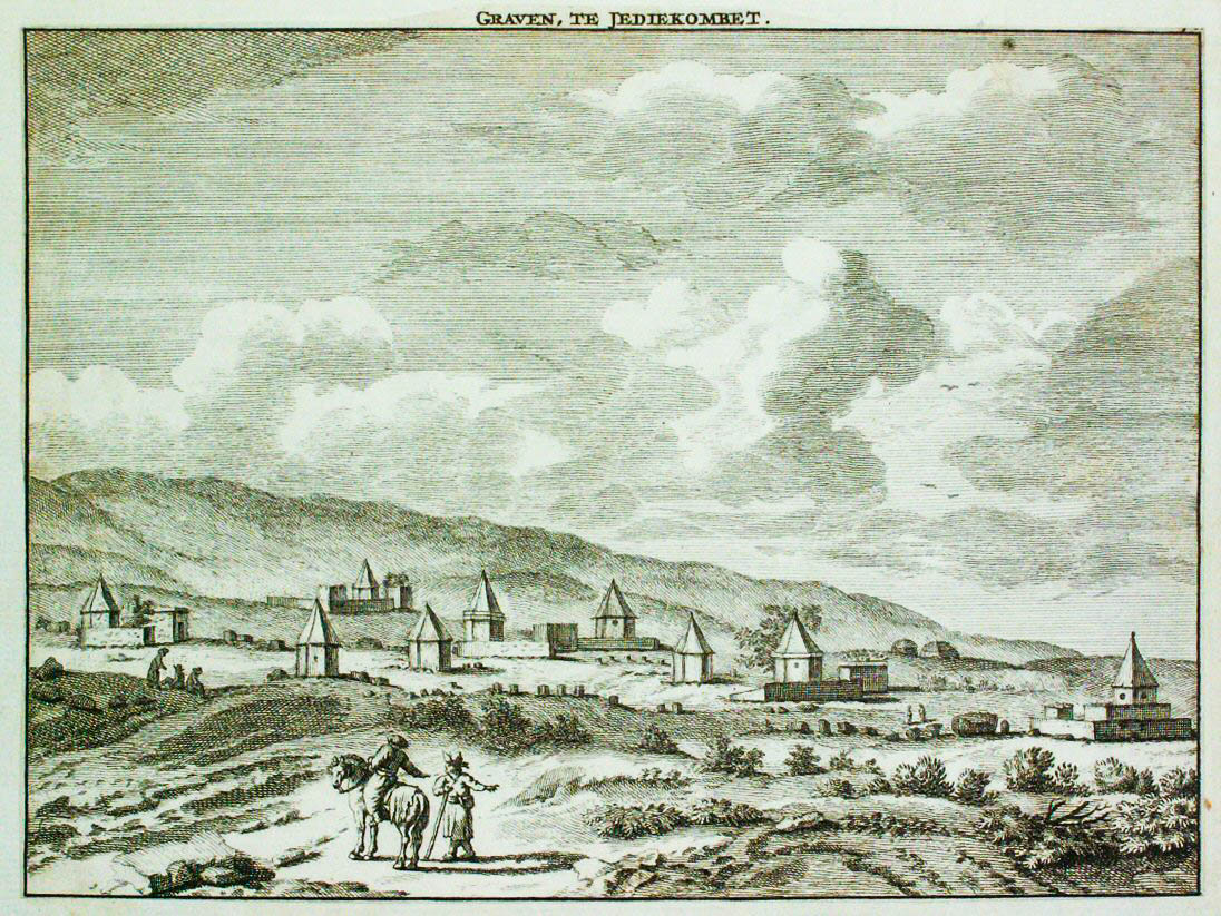 Cornelis de Bruyn - Graven, te Jediekombet